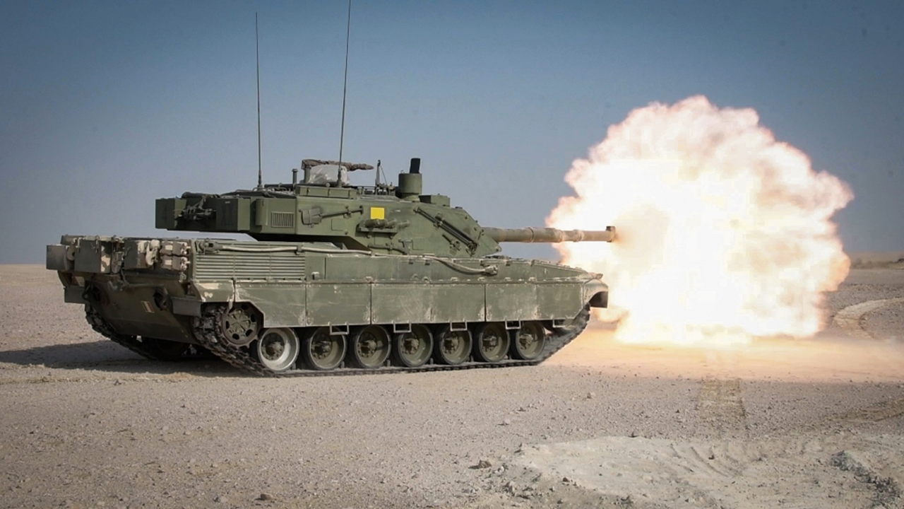 Italian Army - 4th Tank Regiment - Ariete main battle tank during the NASR 19 exercise in Qatar